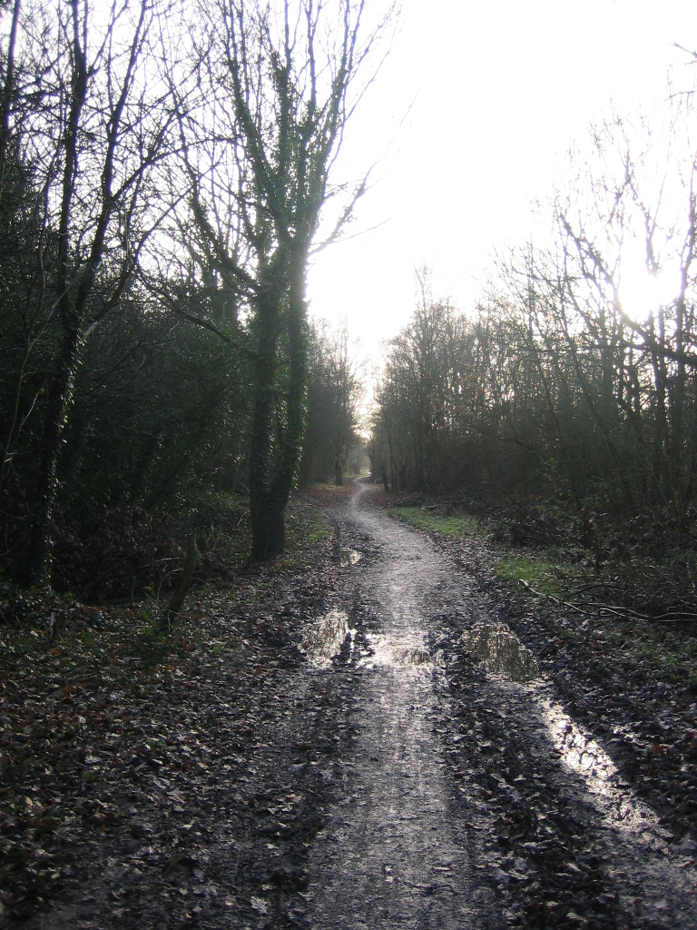 The Middlewood Way